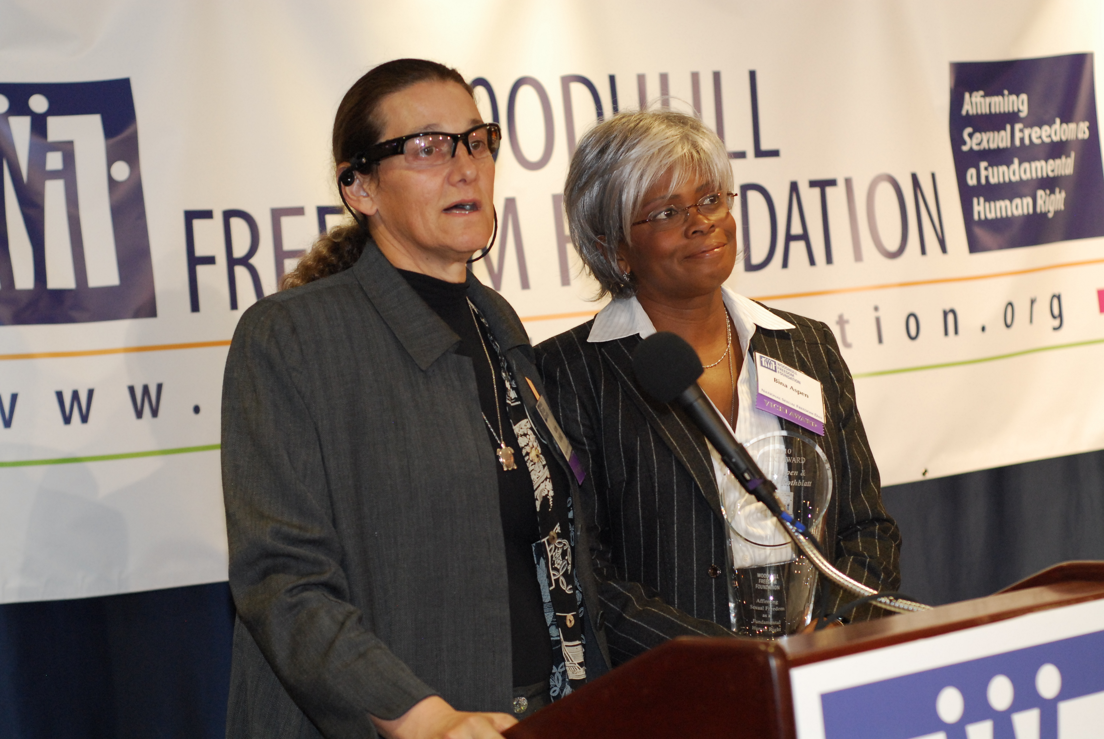 Left to Right, 2010 Vicki Sexual Freedom Award recipients, Martine Rothblatt and her partner and co-recipient Bina Aspen at the National Press Club in Washington, DC on 9/23/10.